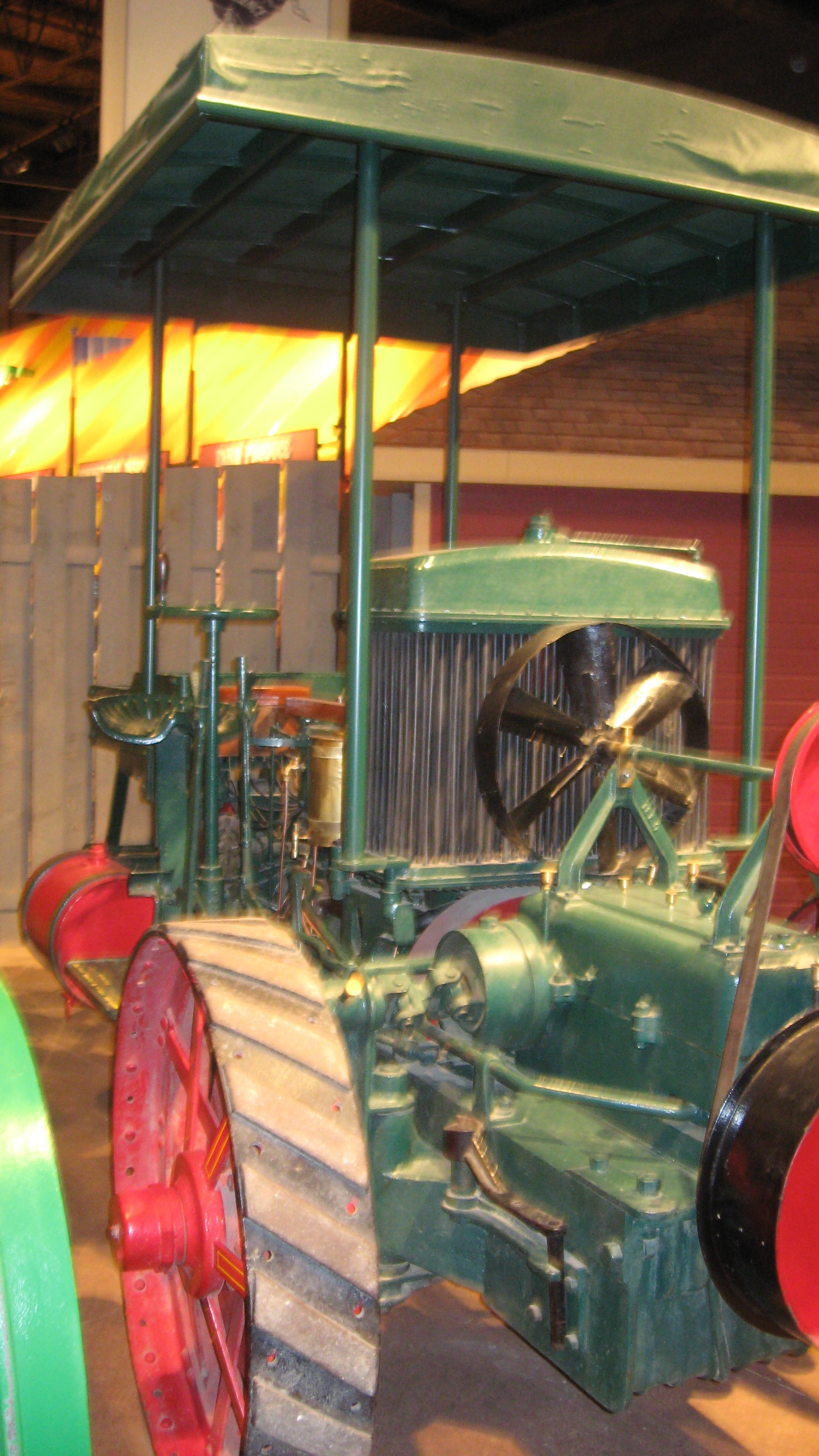 1907 H. P. Saunderson 50hp Universal Motor Type A gas tractor, built at Elstow Works, Bedford, England. Has 3 driven wheels. Intended to be used to replace horses for every task, including threshing and hauling loads. Shipped to Saskatchewan in knock-down kit form & assembled in either Regina or Saskatoon. Differs from contemporaries in having pulley in front, rather than at the side. Used in Saskatchewan around 1910. Shot at Western Development Museum, Saskatoon